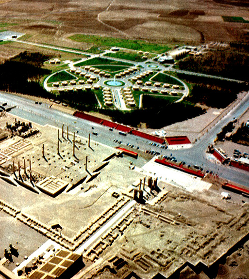 Tent City 2.500 years celebrations